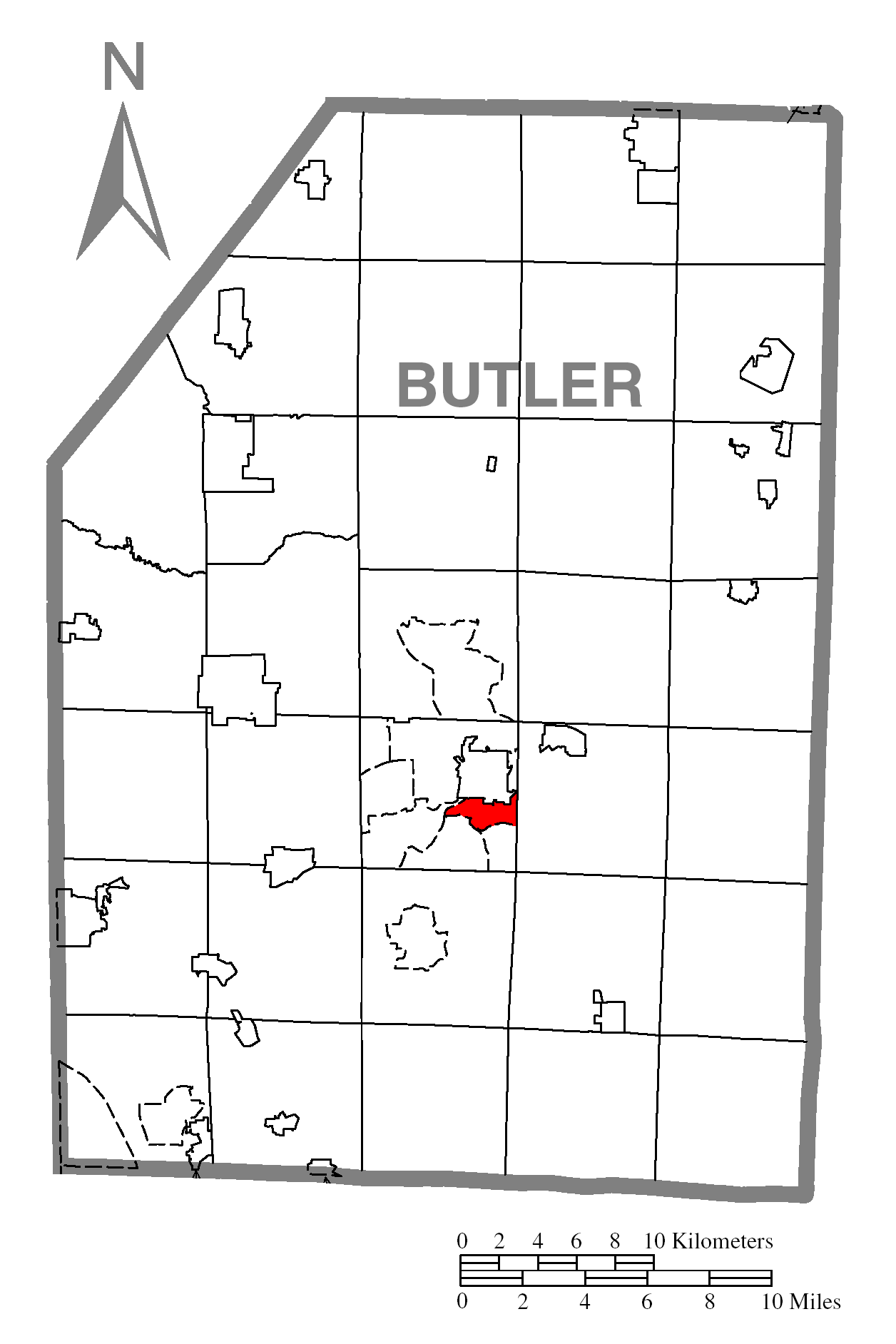 A map of Butler County showing Meadowood, Pennsylvania (alternate) highlighted on the map.